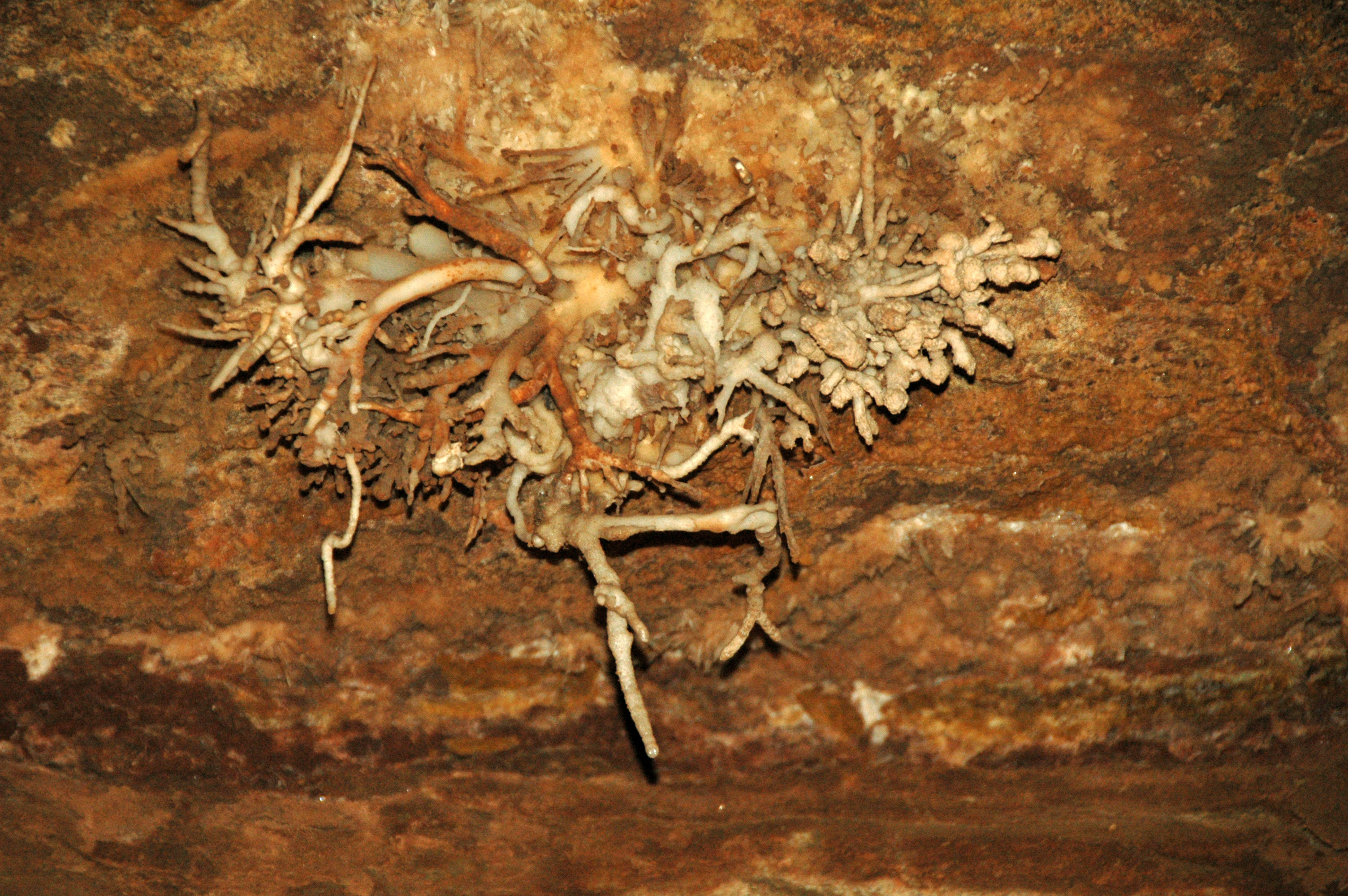 The general term for all secondary mineral deposits occurring in caves is speleothem. Between 200 and 300 different minerals have been reported to occur in various speleothems around the world. The most common speleothem minerals are calcite (CaCO3), aragonite (CaCO3), and gypsum (CaSO4·2H2O). Calcitic speleothem is given the rock name travertine. Varieties of cave travertine are named based on morphology and origin. The most common type is dripstone, which includes stalactites, stalagmites, and columns. Other varieties include flowstone, knobstone (a.k.a. coralloids), helictites, shelfstone, rimstone, cave pearls, frostwork, etc. The structures shown above are helictites - principally antler helictites, but some vermiform helictites are also present. Helictites are irregularly twisted speleothem structures formed by precipitation of minerals (in this case, calcite) from seeping water that moves by capillary action and hydrostatic pressure. Locality: Cave of the Winds, north of the town of Manitou Springs, central Colorado, USA